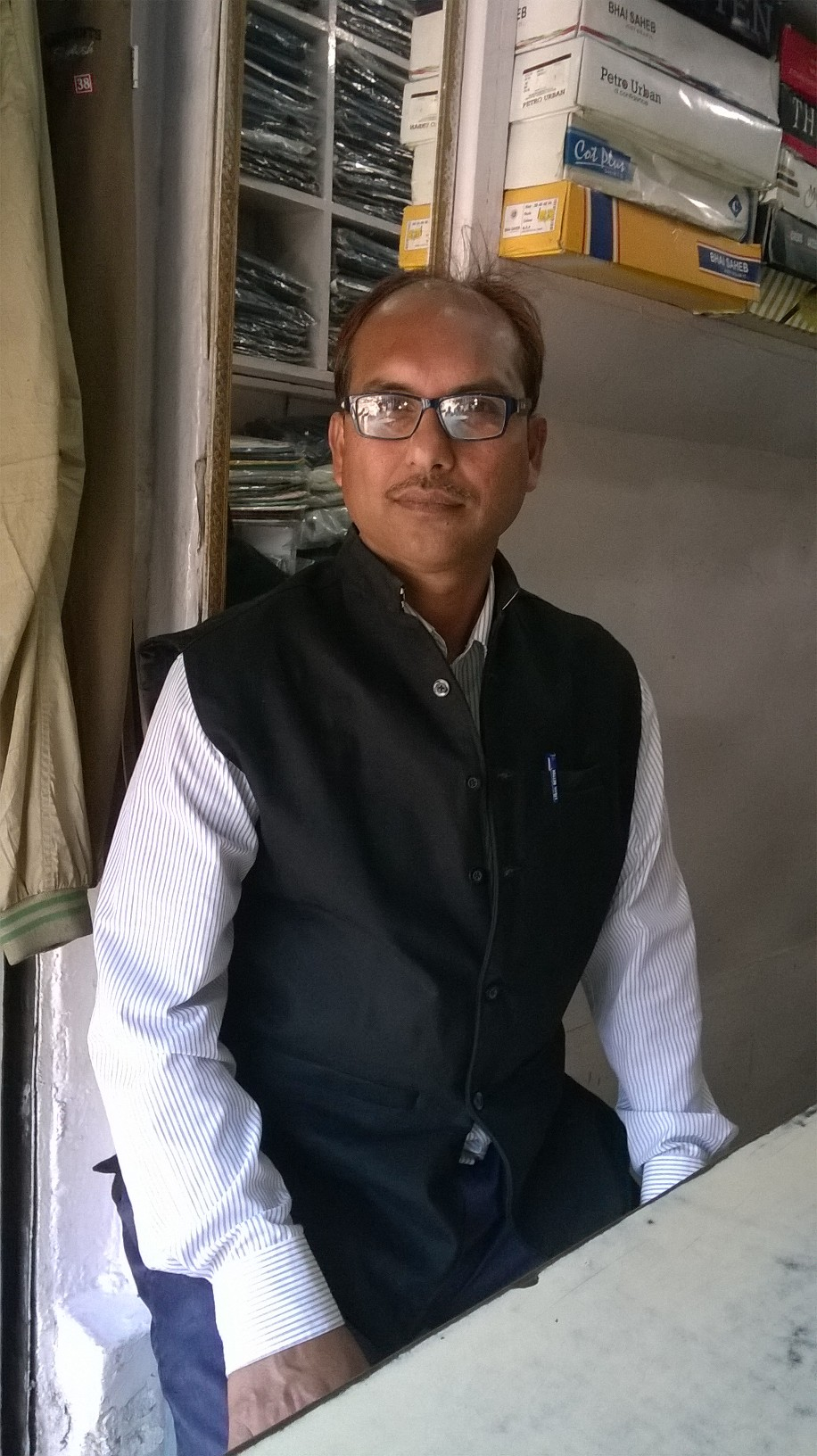 Shariq Rabbani is a Urdu poet from Nanpara Distric Bahraich .